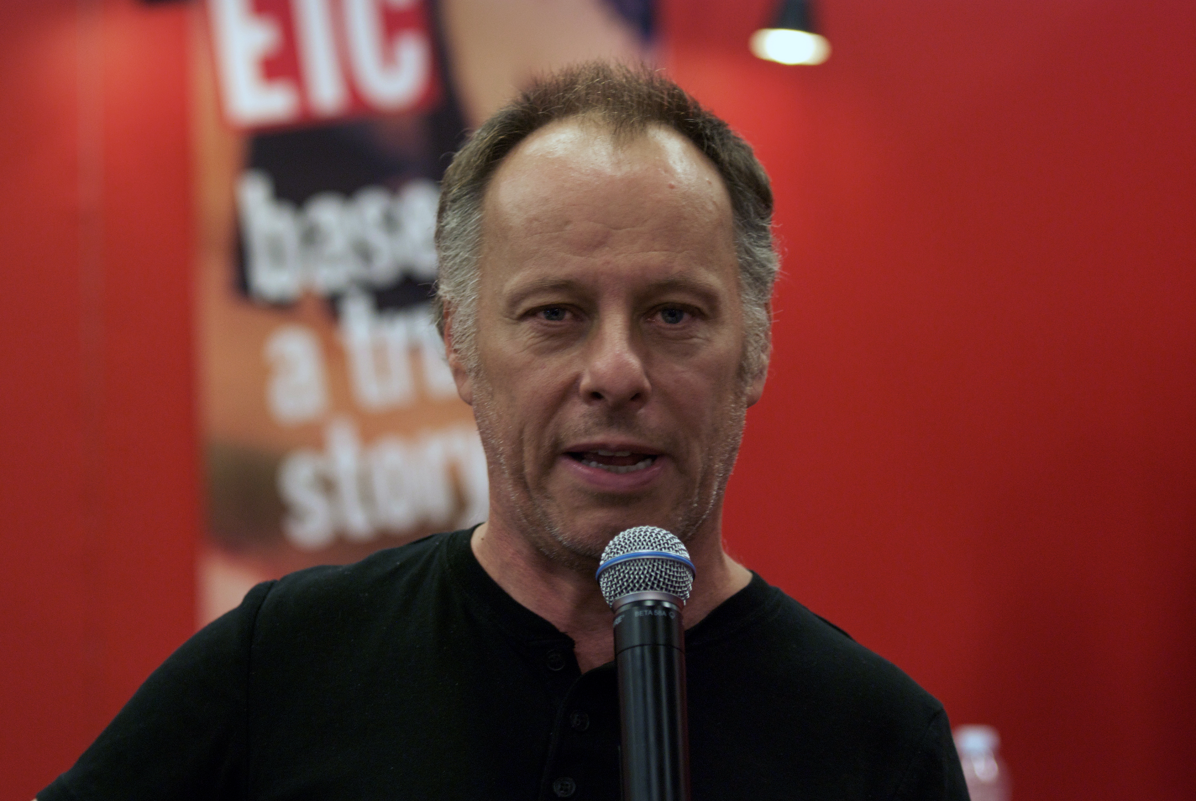 Johan Ehrenberg at Göteborg Book Fair 2011.